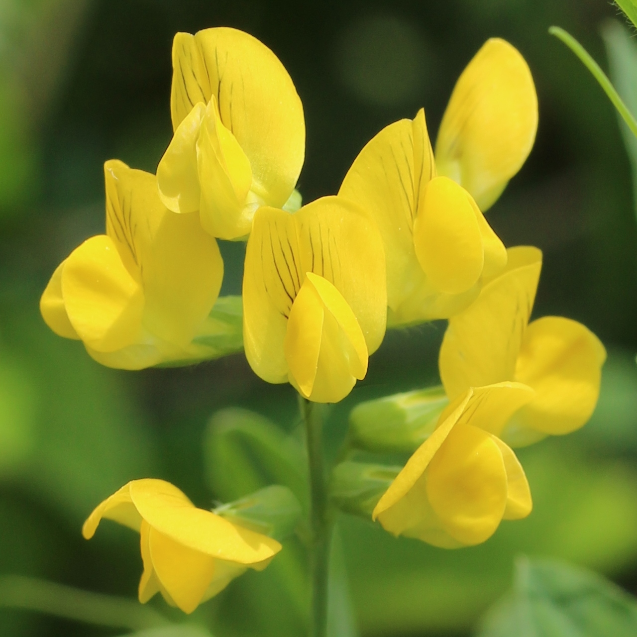 Lathyrus pratensis (Meadow vetchling) in Mount Ibuki